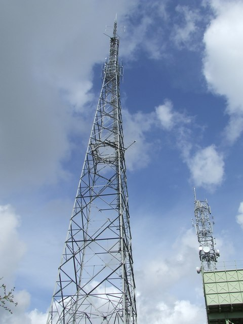 Masts Radio masts and water tower near to Great Massingham Norfolk.